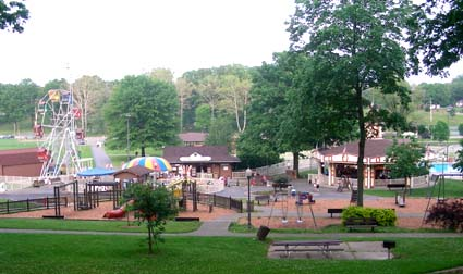 I took this picture today to add to the Wikipedia page on New Philadelphia, Ohio. This photo shows the rides area of Tuscora Park, a municipal park of New Philadelphia. The park features an historic carousel, a Ferris wheel, a train ride, swings and other rides. Batting cages, swimming pools, and baseball fields are also available. This photo was taken from the hill to the west of the rides area. The paths and picnic areas were built as WPA projects in the 30's.